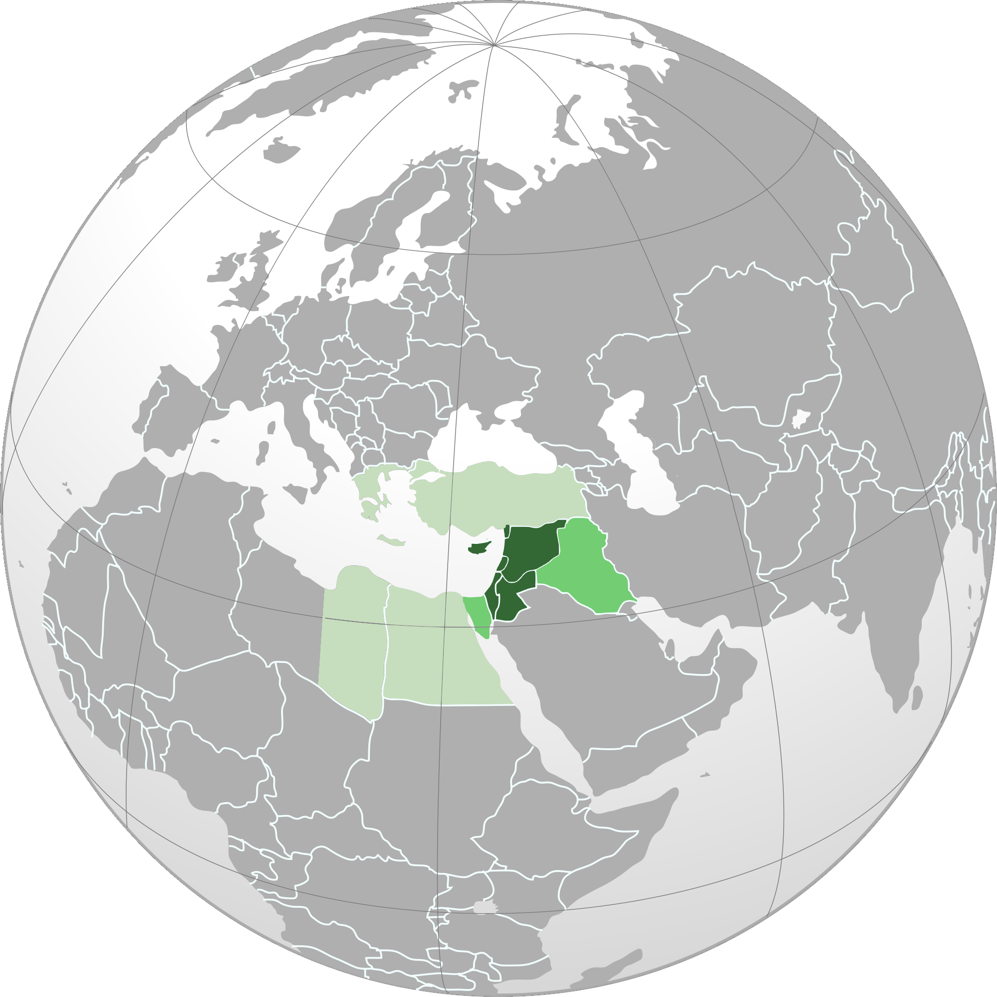 Orthographic map of Levant. Countries and regions located at the Levant region. (Syria, Lebanon, Israel, Jordan, Cyprus and Hatay) Entire territory of countries whose regions are included in the Levant region. (Iraq and Sinai) Countries and regions sometimes included in the Levant region. (Greece, Turkey and Egypt)